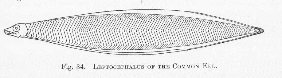 Leptocephalus of the Common Eel Subject: Anguilla (Fish)--Larvae, Eels--Larvae Tag: Fish